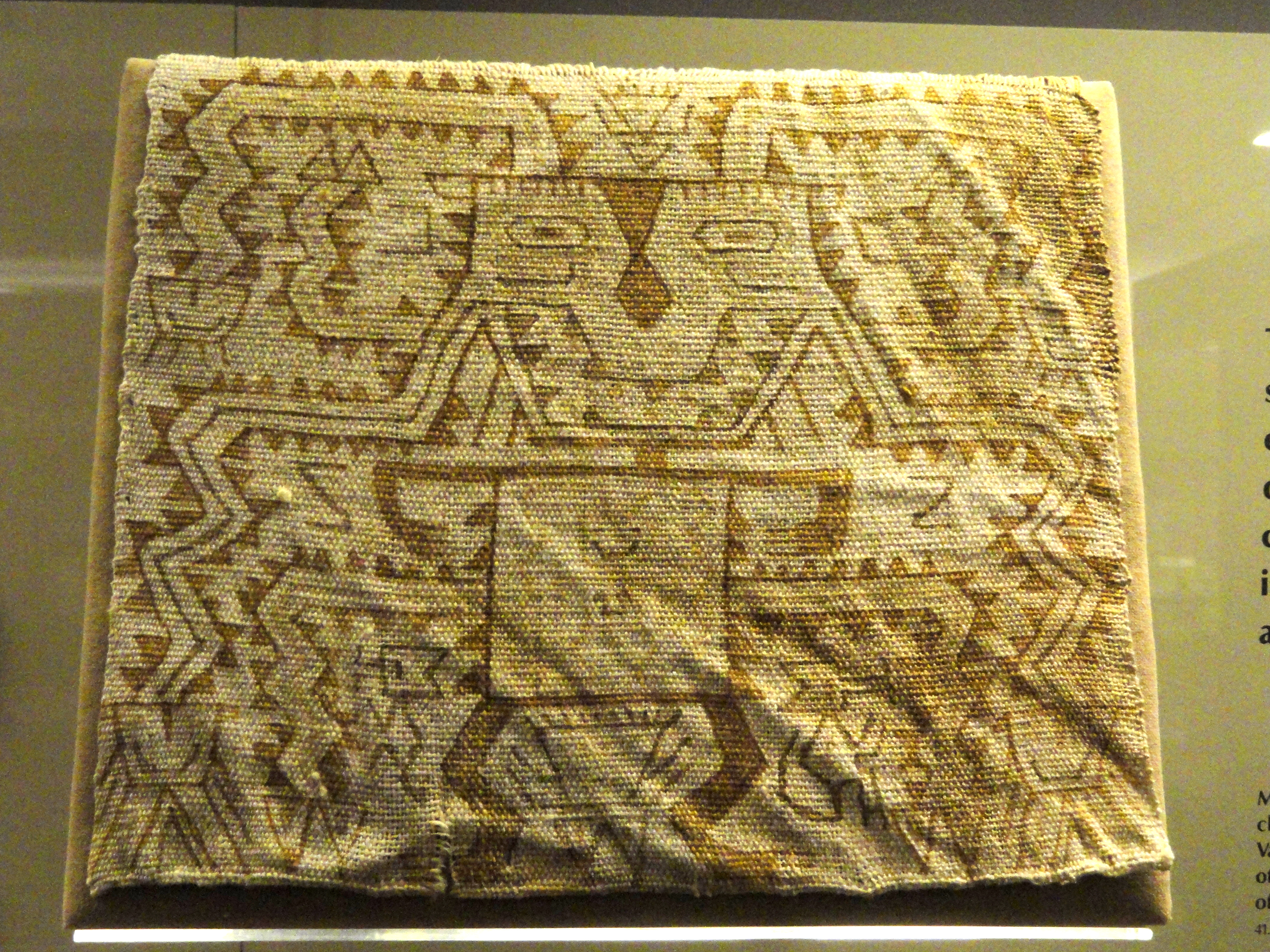 Exhibit in the South American collection of the American Museum of Natural History, Manhattan, New York City, New York, USA.